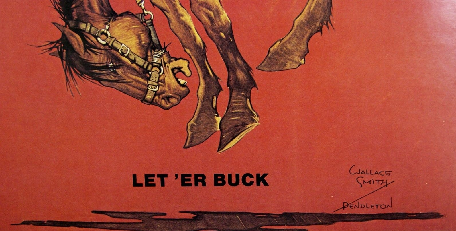 let 'er buck payoff